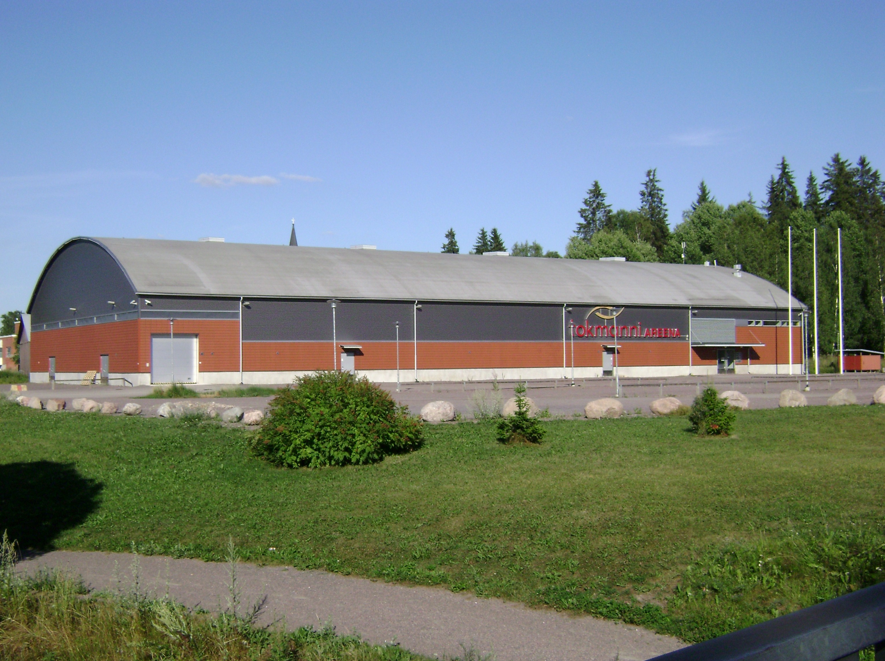 Mäntsälä ice hall in Mäntsälä, Finland